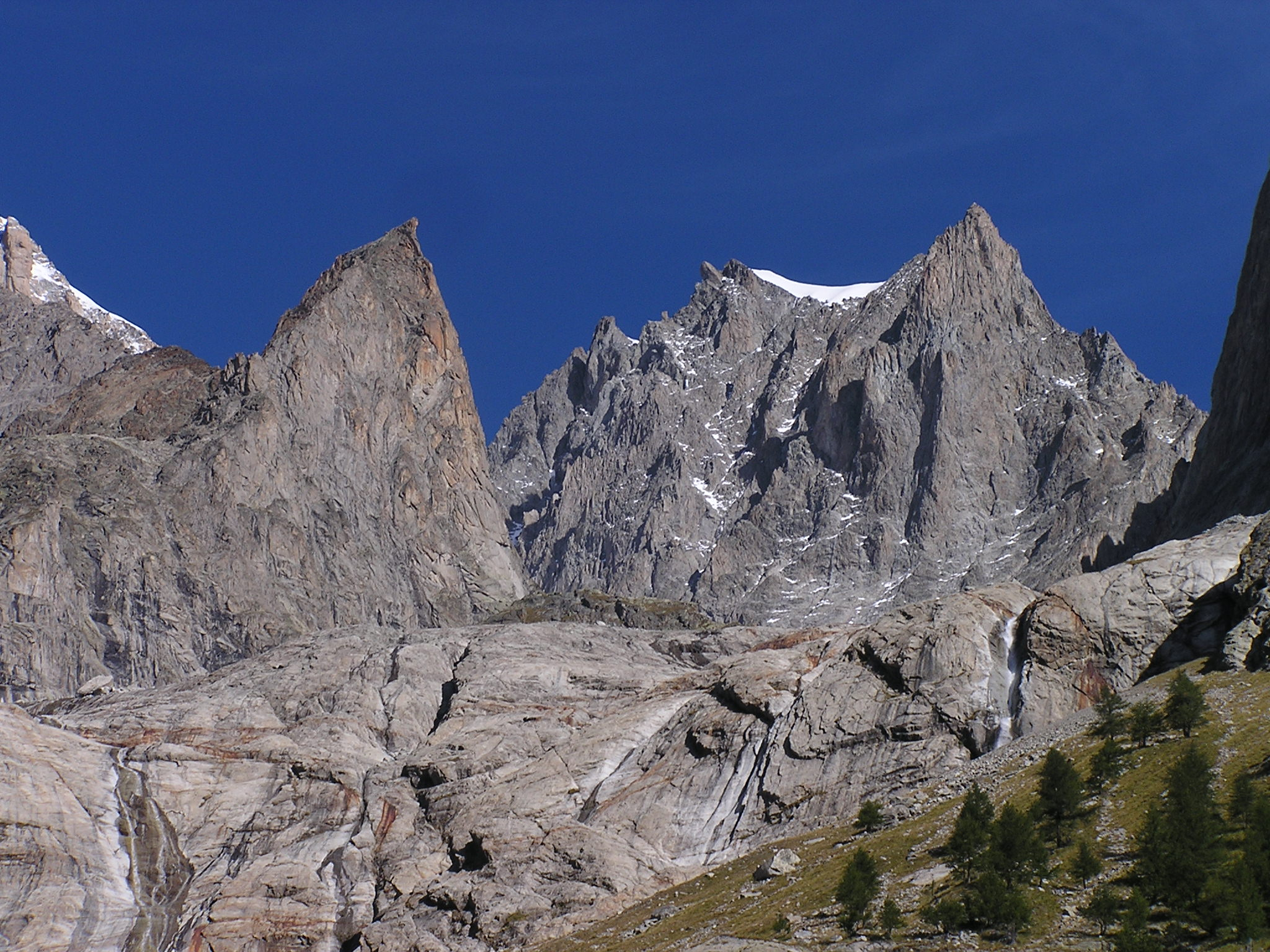 This is a photo of a monument which is part of cultural heritage of Italy.